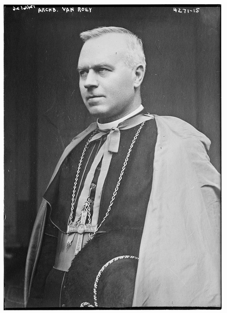 Jozef-Ernest van Roey in 1917